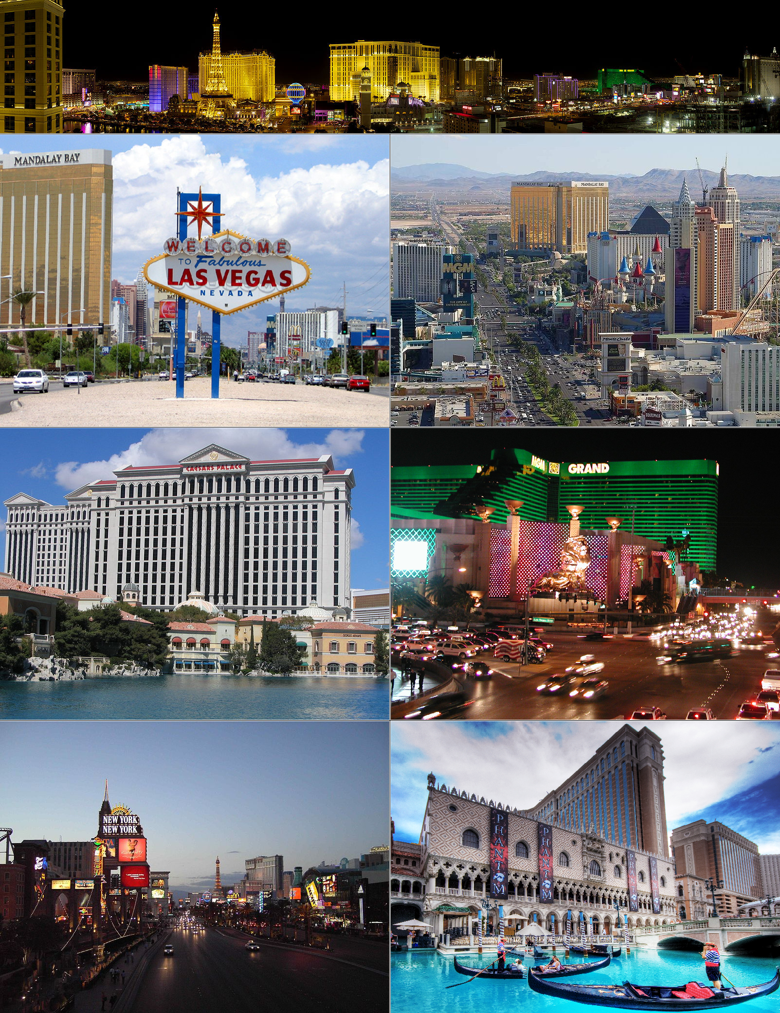 Composite of seven photos for use in the Las Vegas Strip article. Top is "Night Panorama of the Las Vegas Strip, featuring Project City Center construction to the right"; second row is "the Las Vegas Sign. June 2005" (left) and "Las Vegas strip" (right); third row is "Caesars Palace - Across Bellagio Lake" (left) and "Tropicana - Las Vegas Boulevard intersection" (right); fourth (bottom) row is "View northwards of Las Vegas Boulevard, taken from the Tropicana Avenue intersection, between the New York, New York and MGM Grand hotels." (left) and "Canals at the Venetian Resort Hotel Casino, a Venice-themed hotel and casino located on the famed Las Vegas Strip in Las Vegas, Nevada, on the site of the old Sands Hotel. The Venetian is owned and operated by the Las Vegas Sands Corporation." (right).